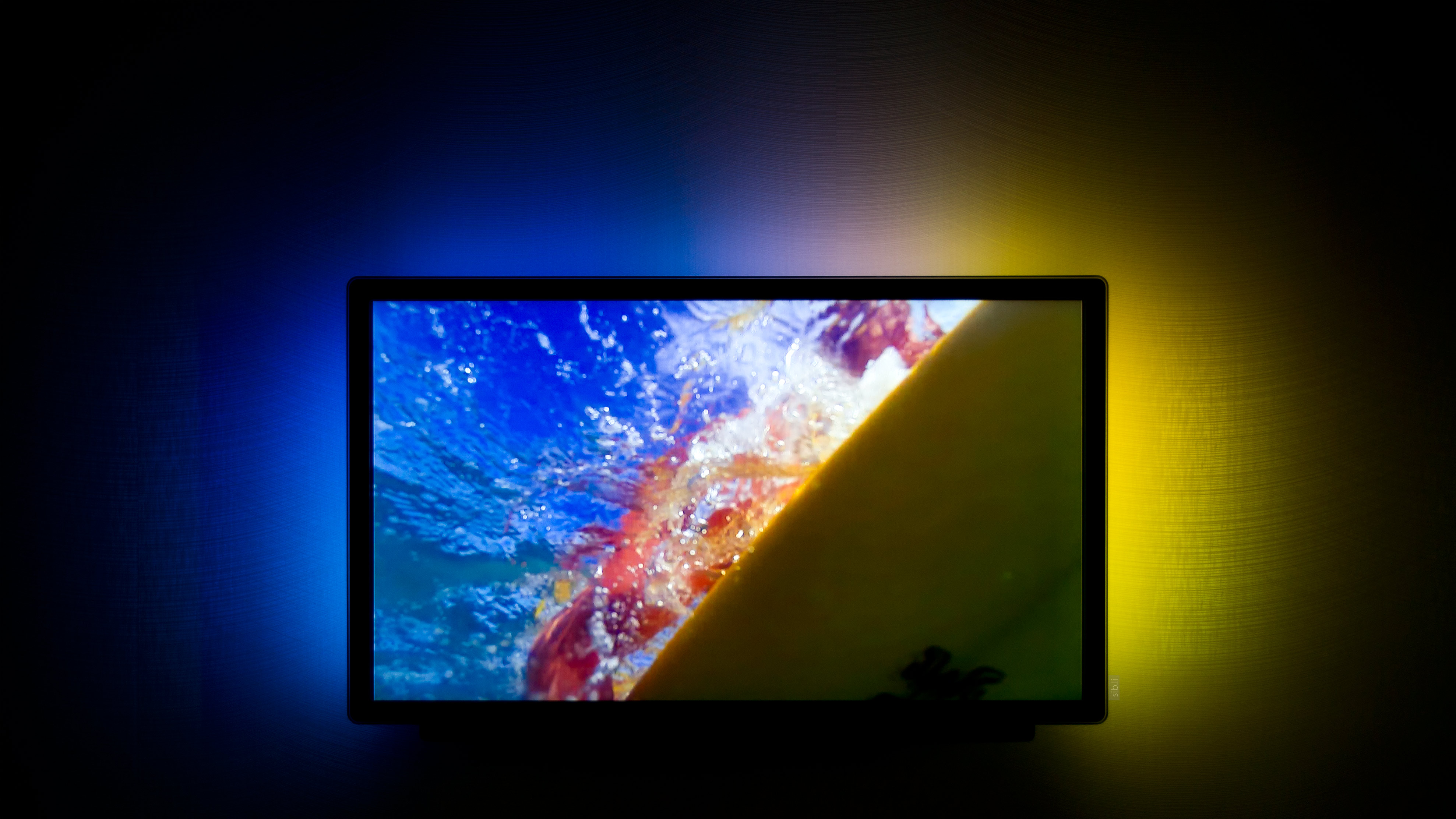 Philips 46PFL9705H Ambilight Spectra 3 preview